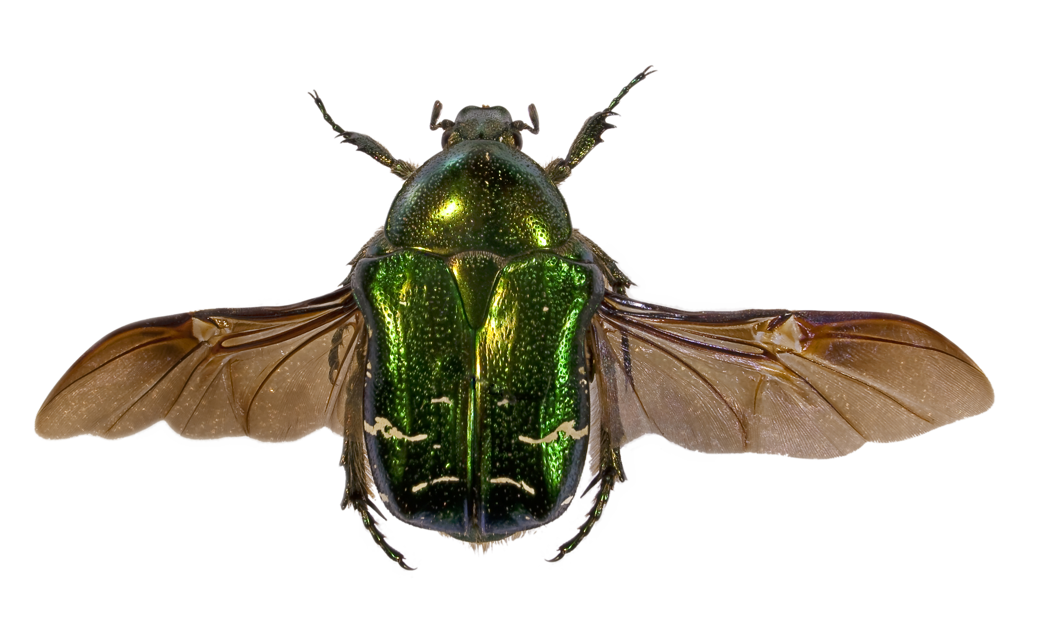 Cetonia aurata (rose chafer) Locality: Fronton, Midi-Pyrénées, France Size: 4.4x2cm